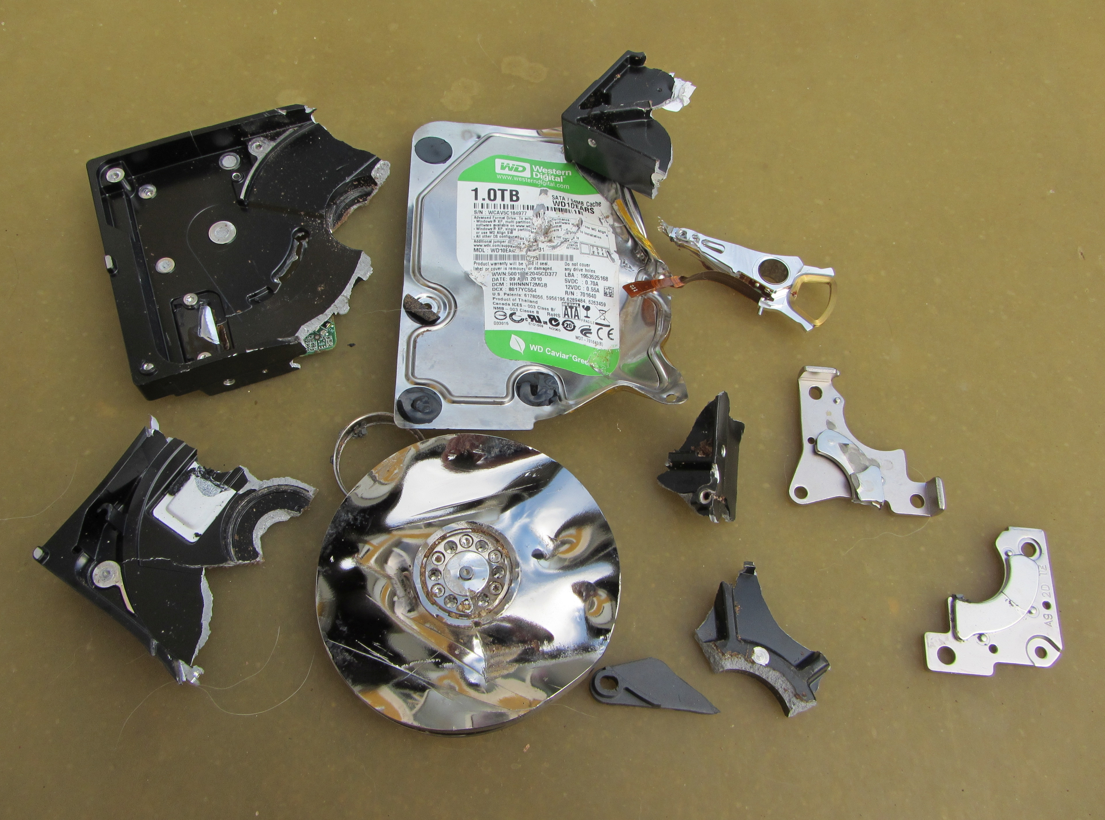 Hard disk drive(Western Digital Green 1TB (WD10EARS)) before recycling a PC, damaged for data protection.